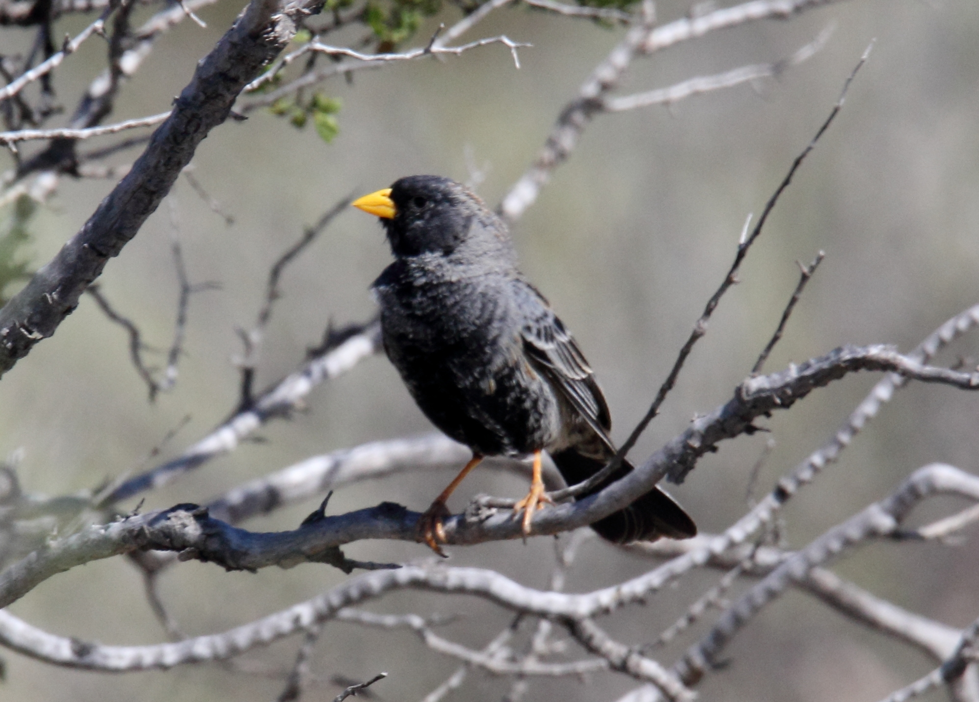 Carbonated Sierra-finch (Phrygilus carbonarius)